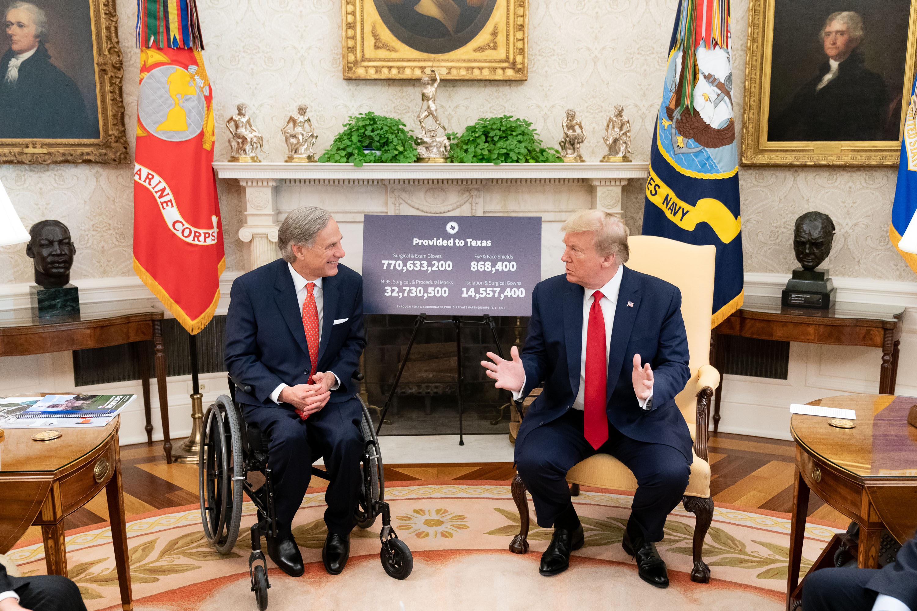 President Donald J. Trump, joined by Vice President Mike Pence and members of the White House Coronavirus Task Force, meets with Texas Gov. Greg Abbott Thursday, May 7, 2020, in the Oval Office of the White House.(Official White House Photo by Tia Dufour)